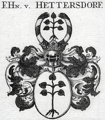 Wappen des deutschen Adelsgeschlechtes der Freiherrn von Hettersdorf